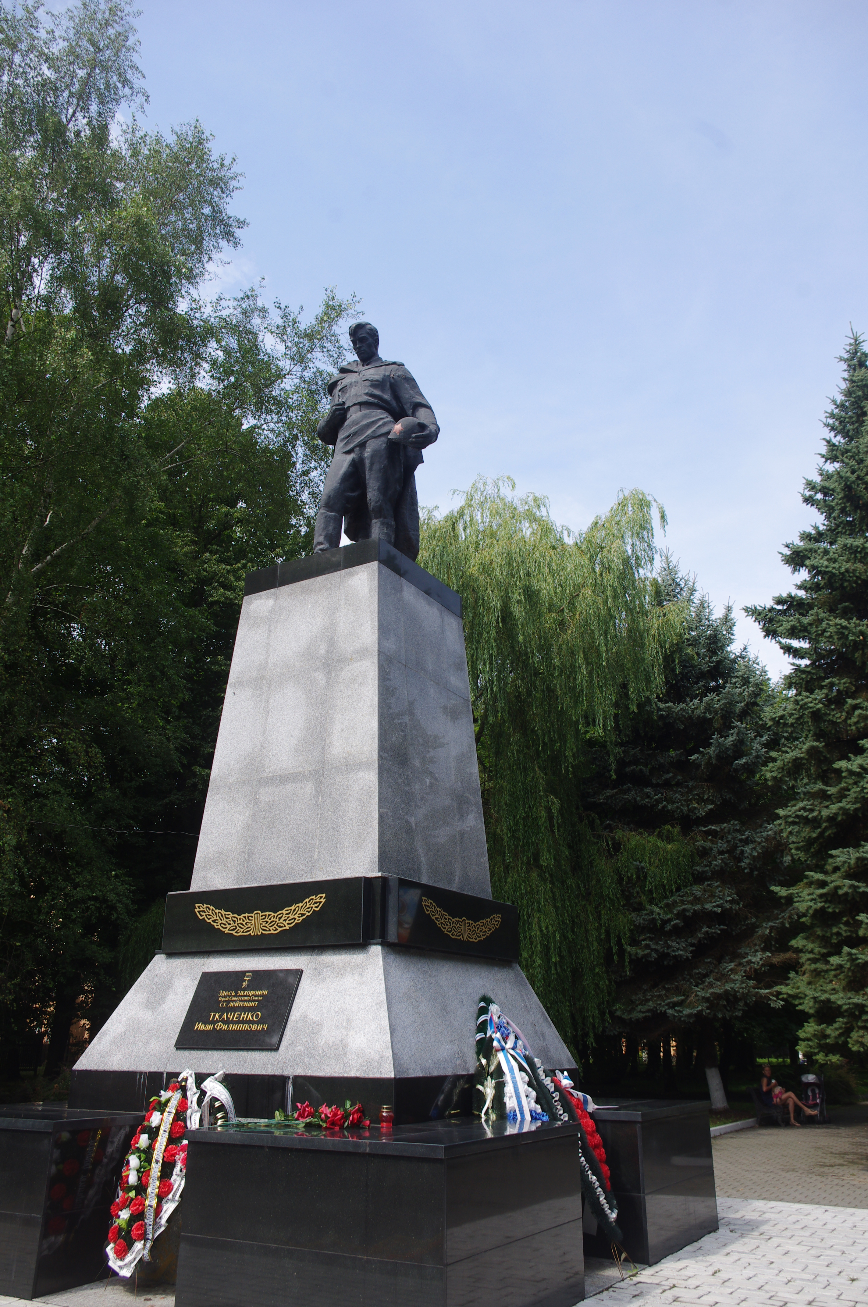 Hero of the Soviet Union Ivan Tkachenko's monument in Zelenogradsk, Russia